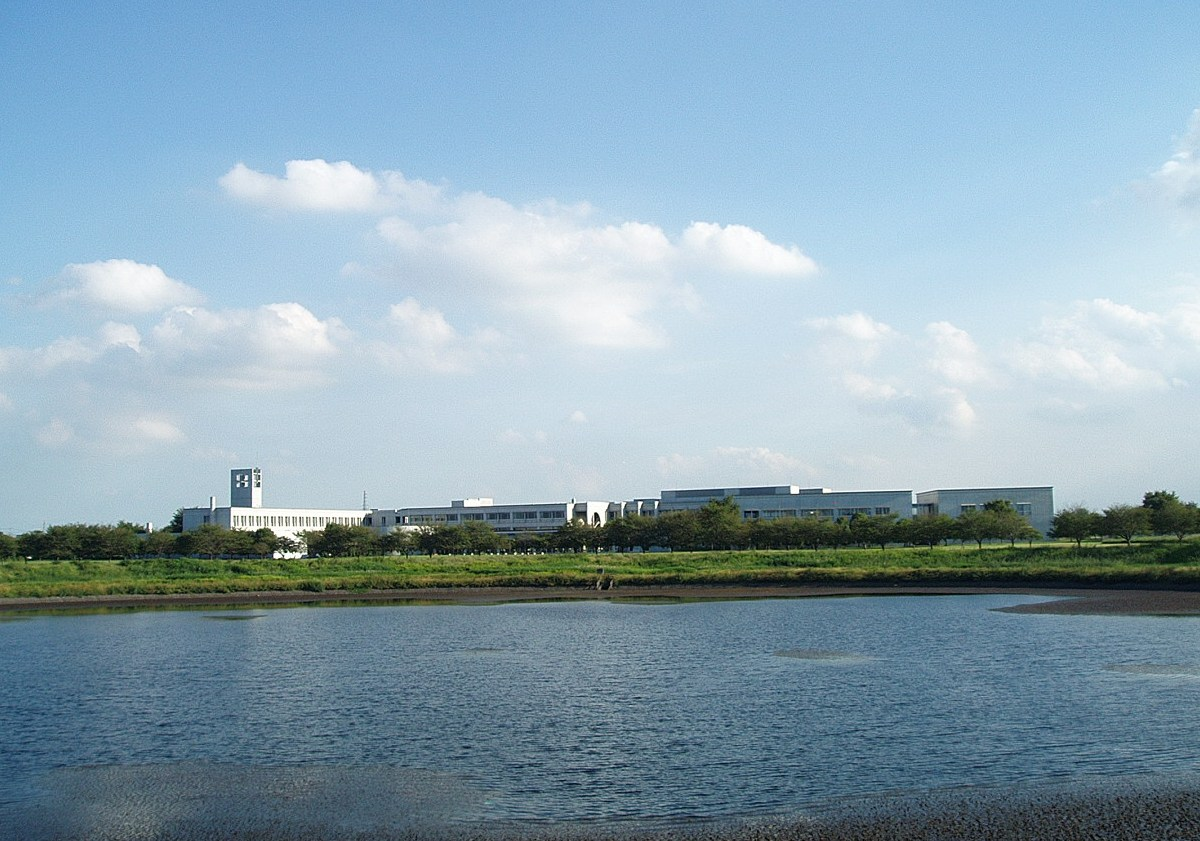 Toyo University Itakura Campus, located in Itakura Town, Gunma Prefecture, Japan, viewed from the north (Izumino Park)